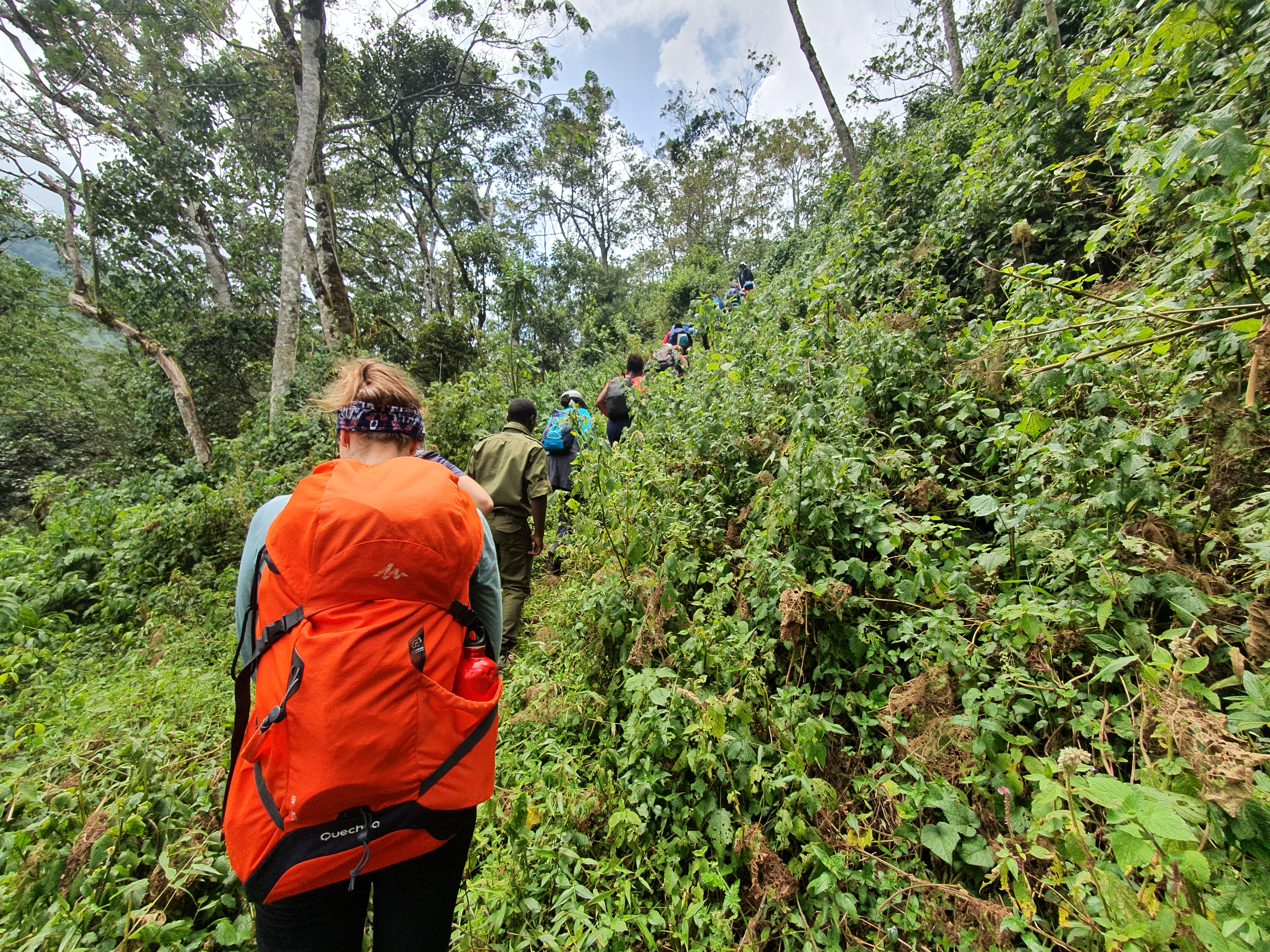 Hiking through the Gura forest, Aberdare ranges, Kenya This is an image with the theme "Africa on the Move or Transport" from: Kenya